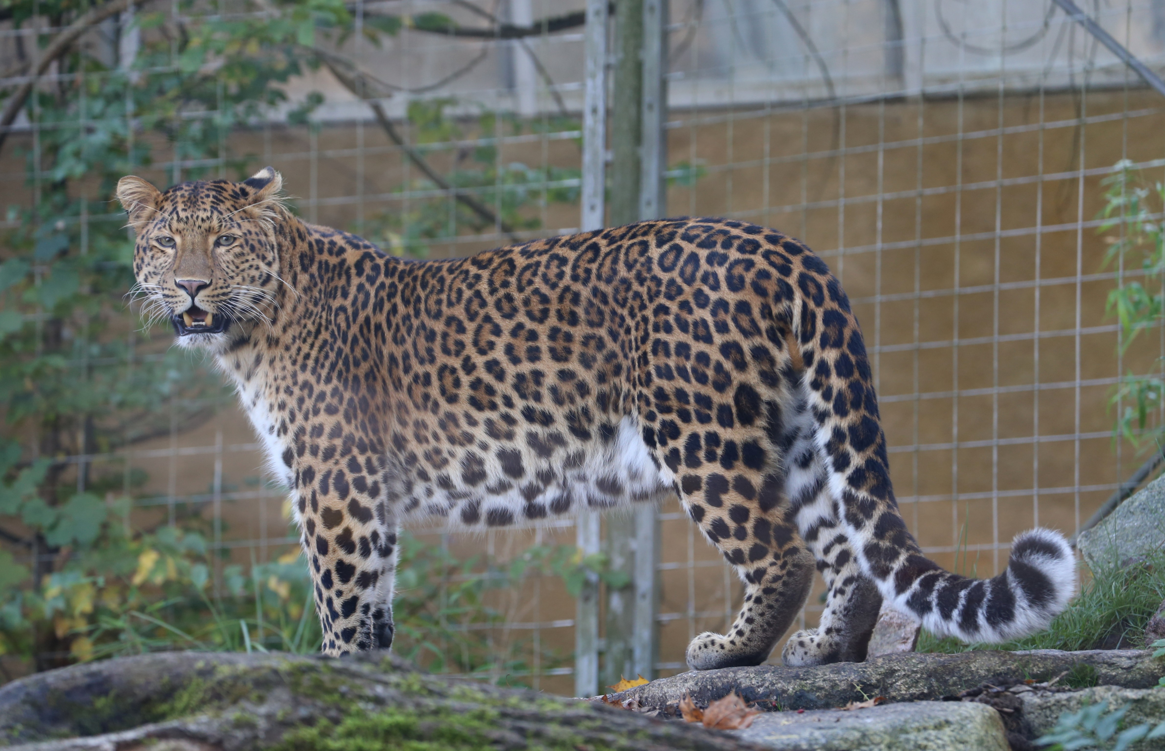 Chinesischer Leopard (Panthera pardus japonensis), Tierpark Hellabrunn